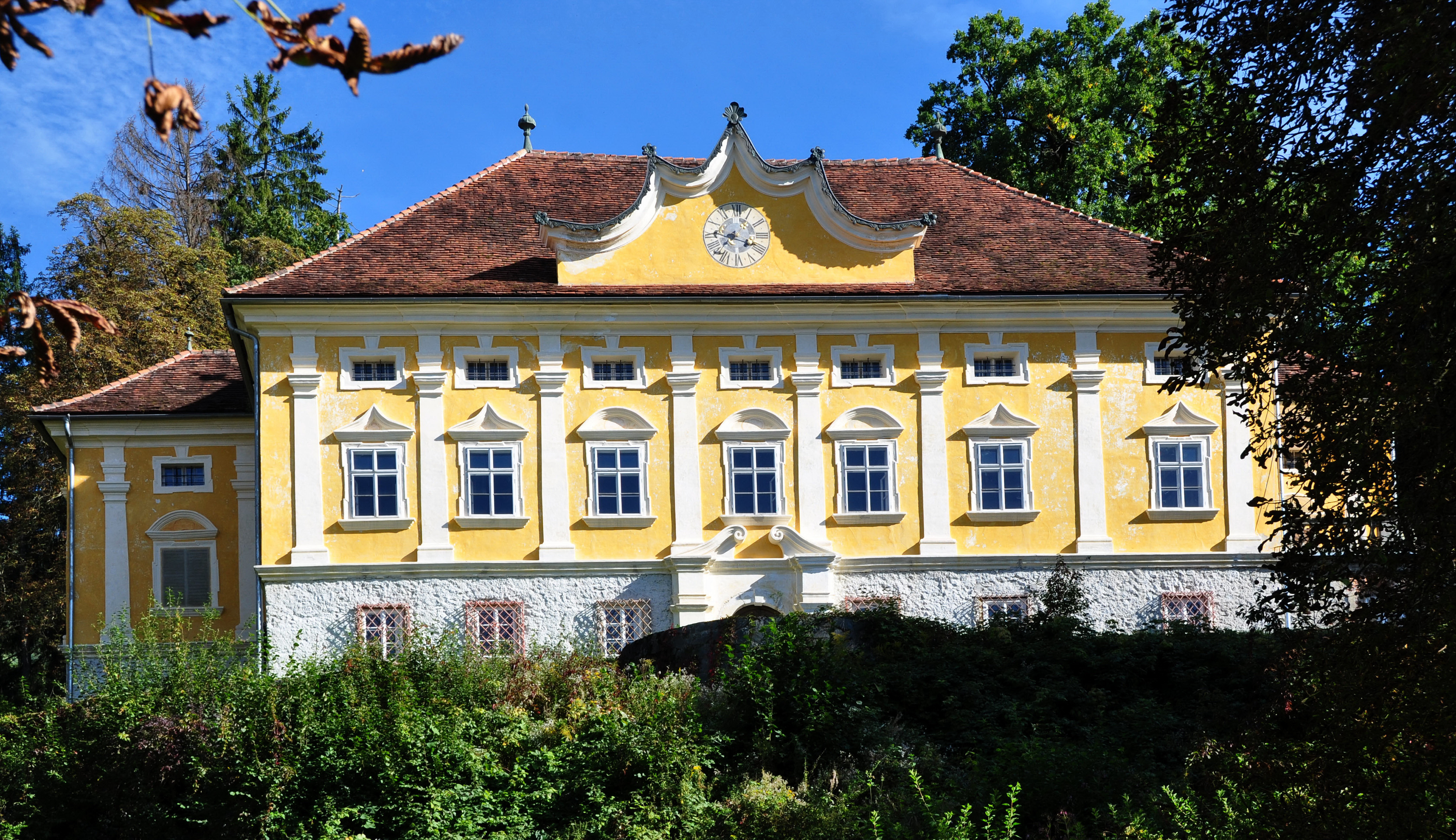 Castle Stadlhof at Pfluegern, municipality Saint Veit on the Glan, Carinthia / Austria / EU